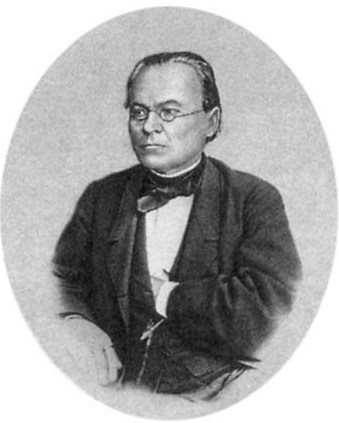 Victor Ipatevich Askochensky (1820 - 1879)